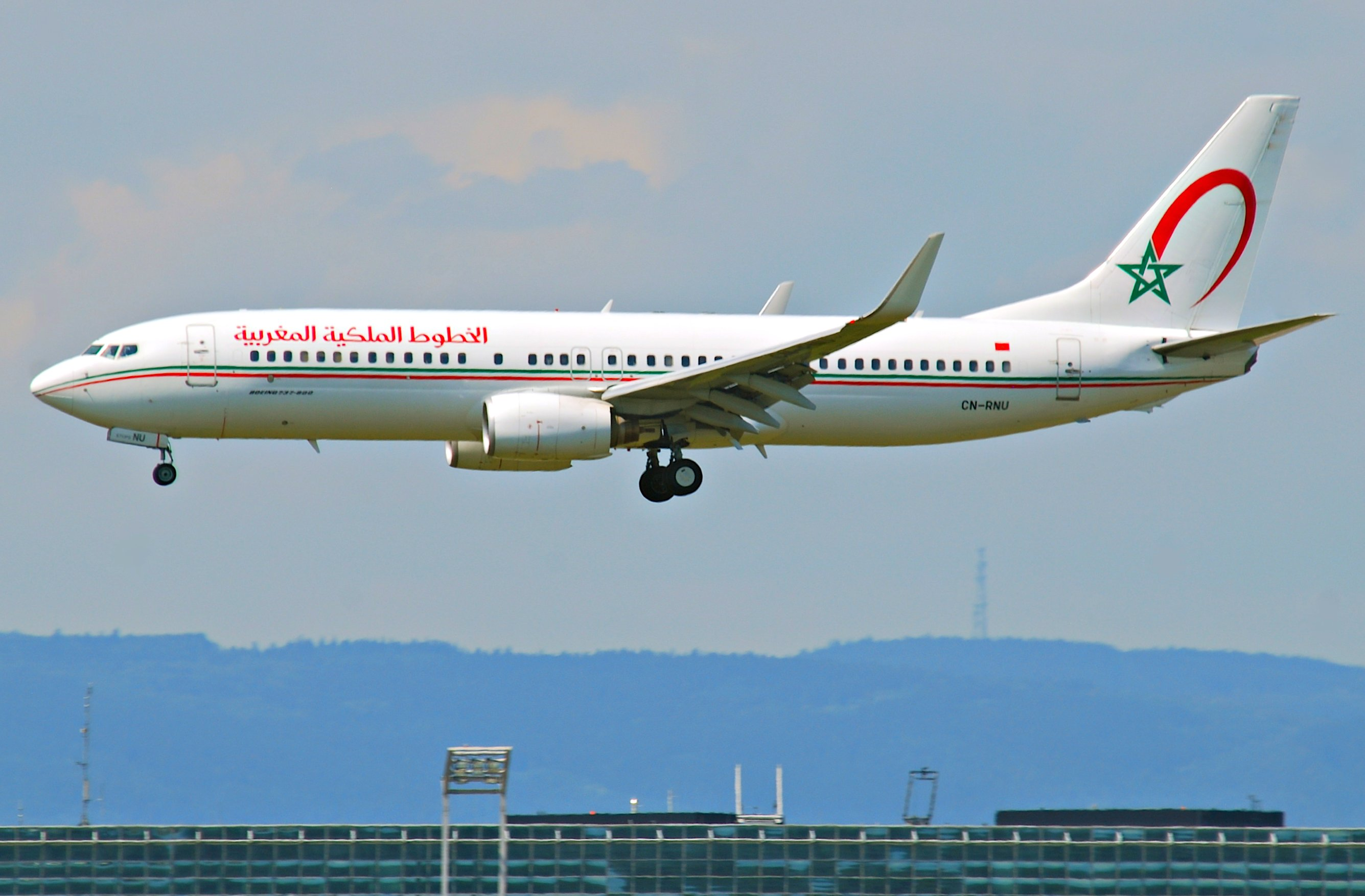 This Boeing 737-8B6 took its first flight on March 19, 2002...(c/n 28987/ 1095)